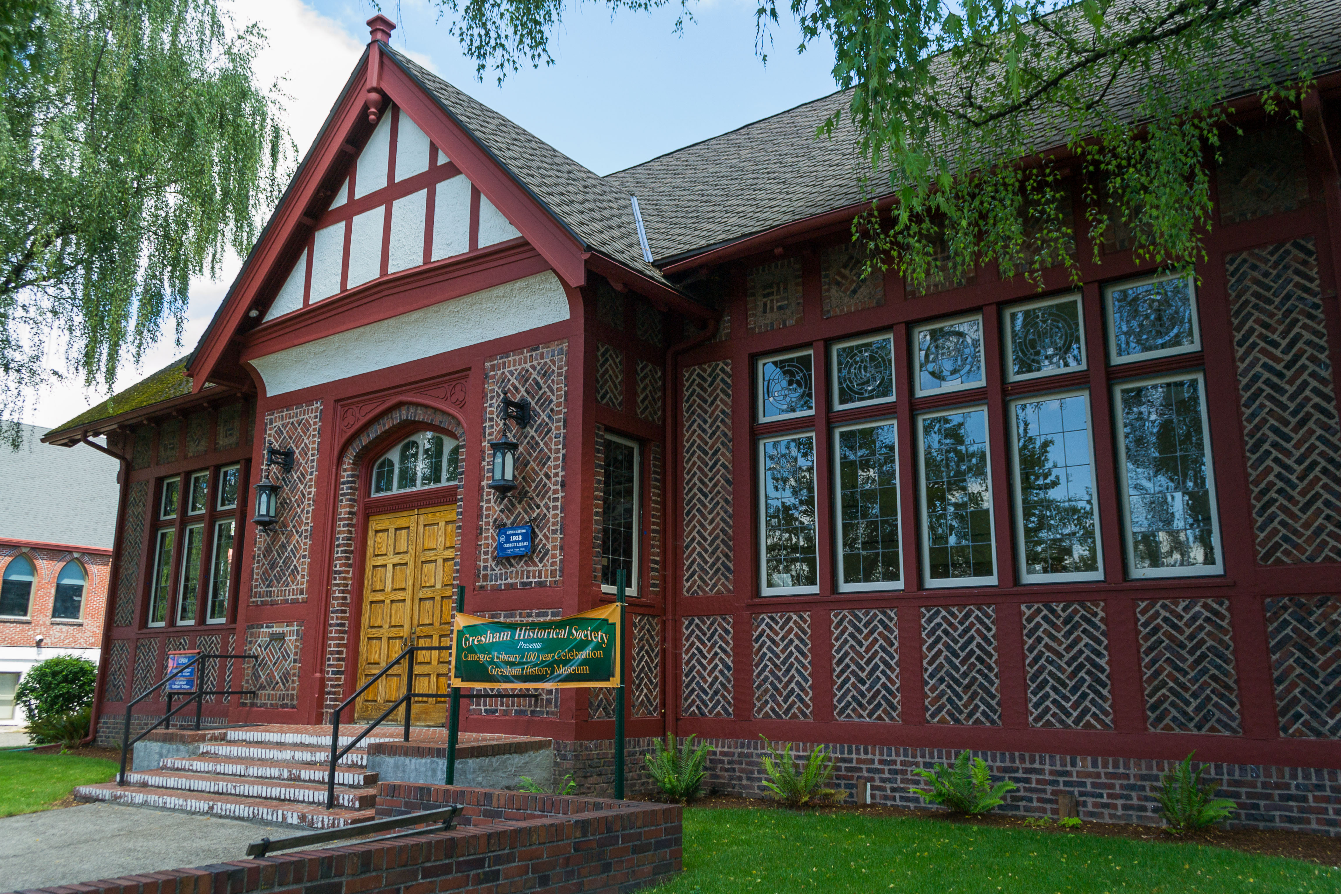 The Gresham Carnegie Library now serves as home to the Gresham Historical Society